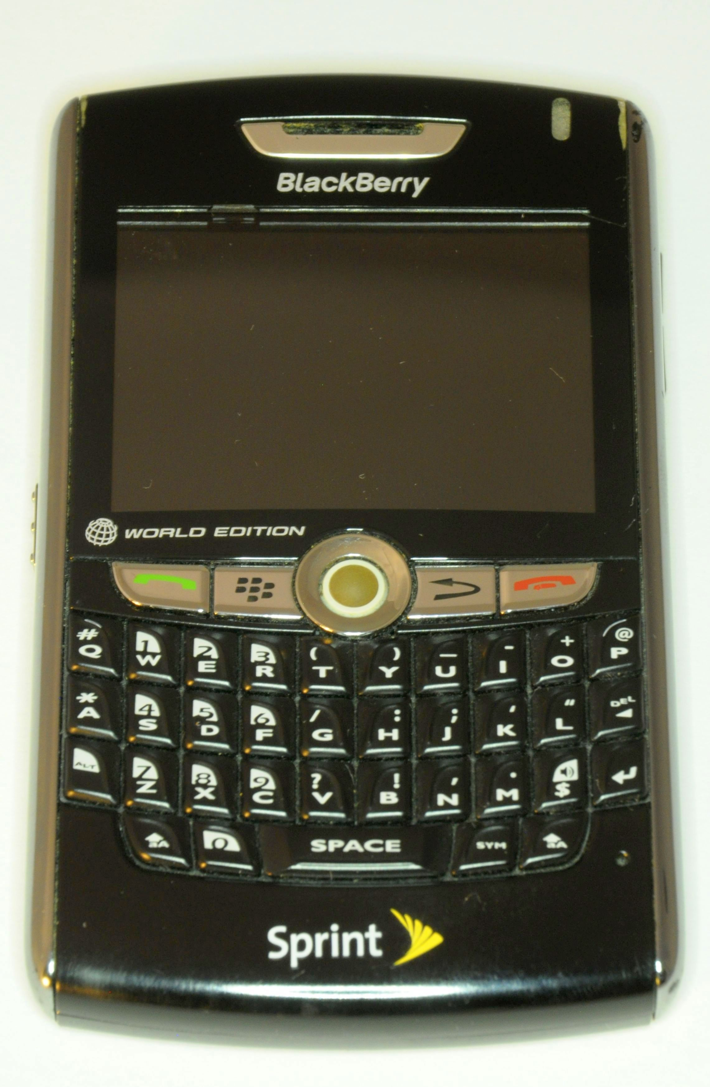 Blackberry 8830.jpg